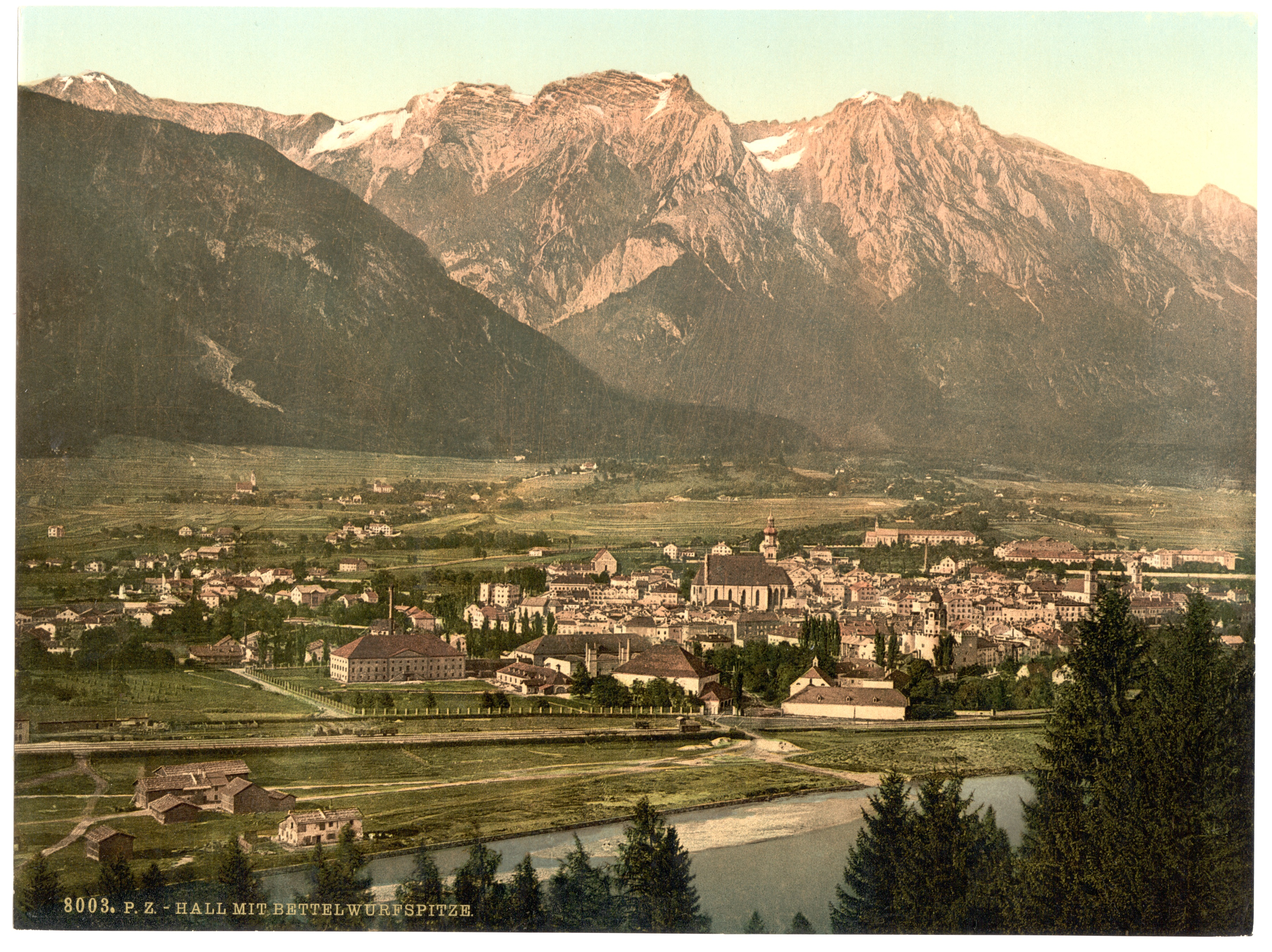 Print no. "8003".; Forms part of: Views of the Austro-Hungarian Empire in the Photochrom print collection.; Title from the Detroit Publishing Co., Catalogue J-foreign section, Detroit, Mich. : Detroit Publishing Company, 1905.